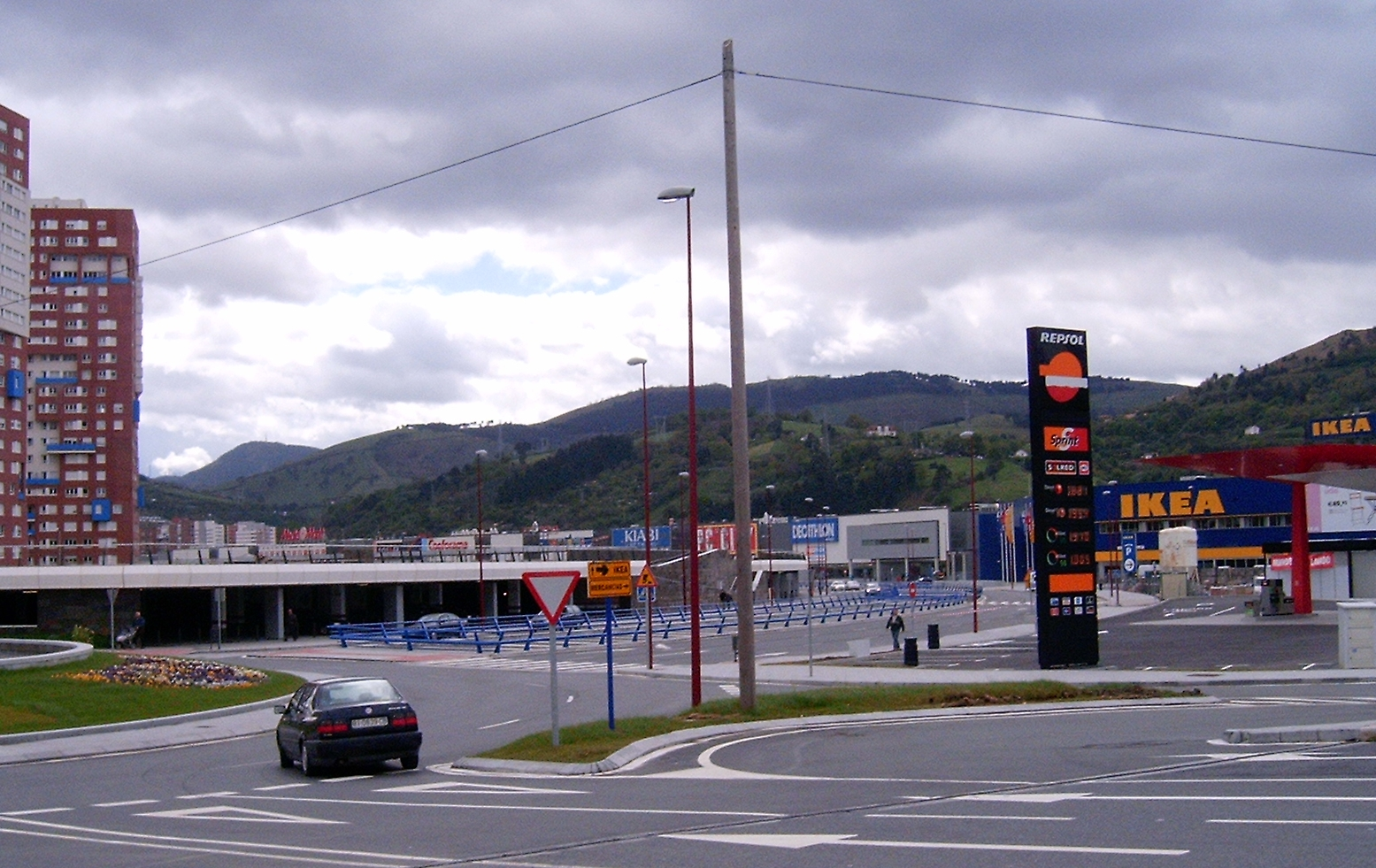 Gas station and crossroads at Megapark, Barakaldo.